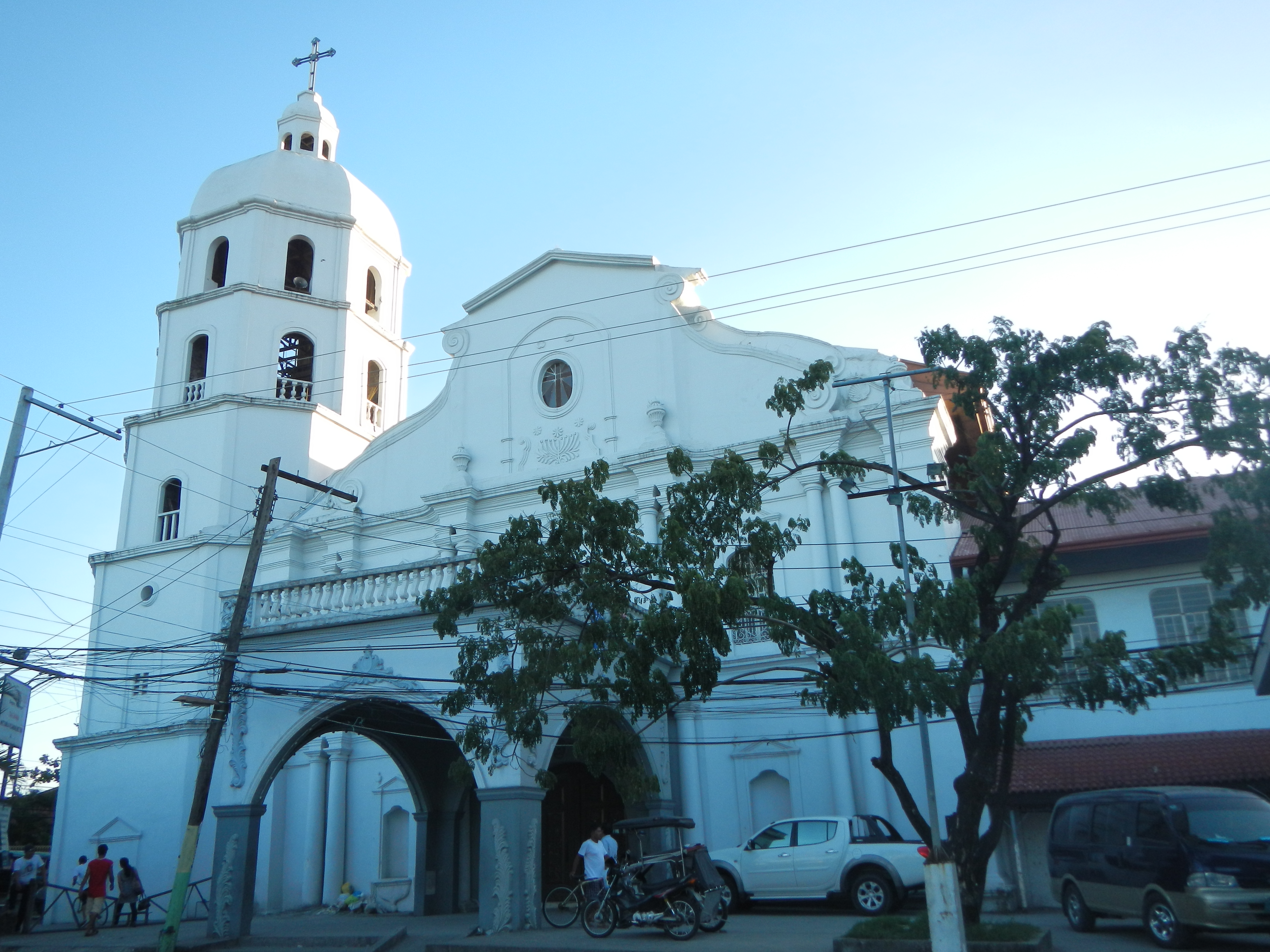 1590 Immaculate Conception Parish - Guagua[1] Guagua, Pampanga[2]